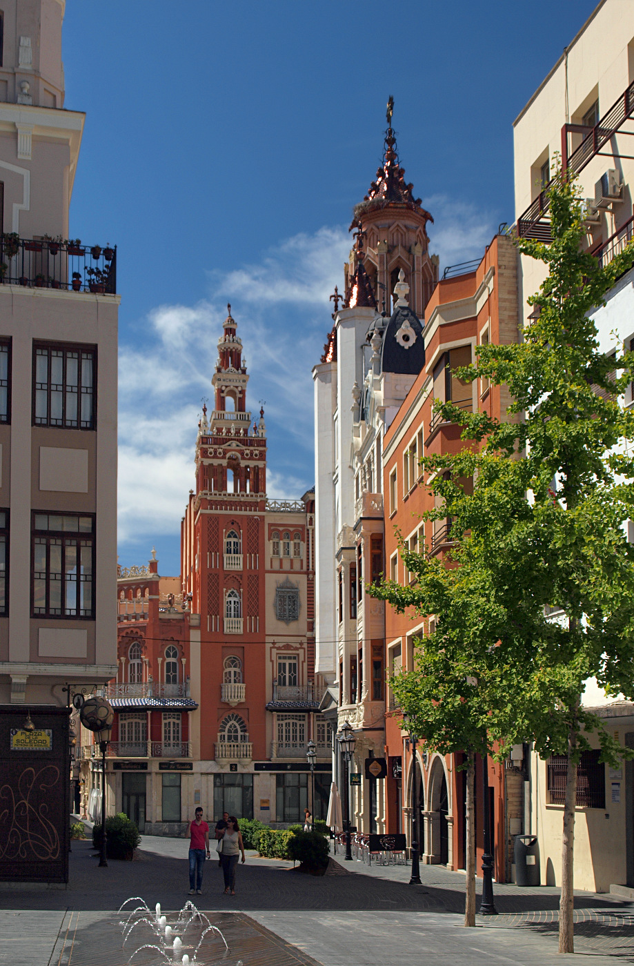 Badajoz, Plaza de la Soledad